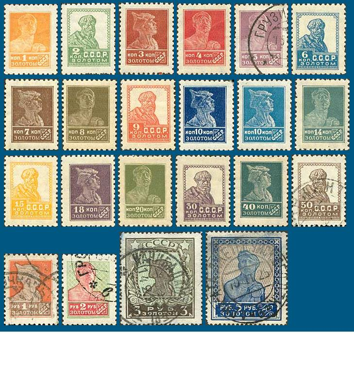 Stamps of the Soviet Union, Gold Standard (first Soviet definitive issue), perforate, 1925, CPA #149-170(?).